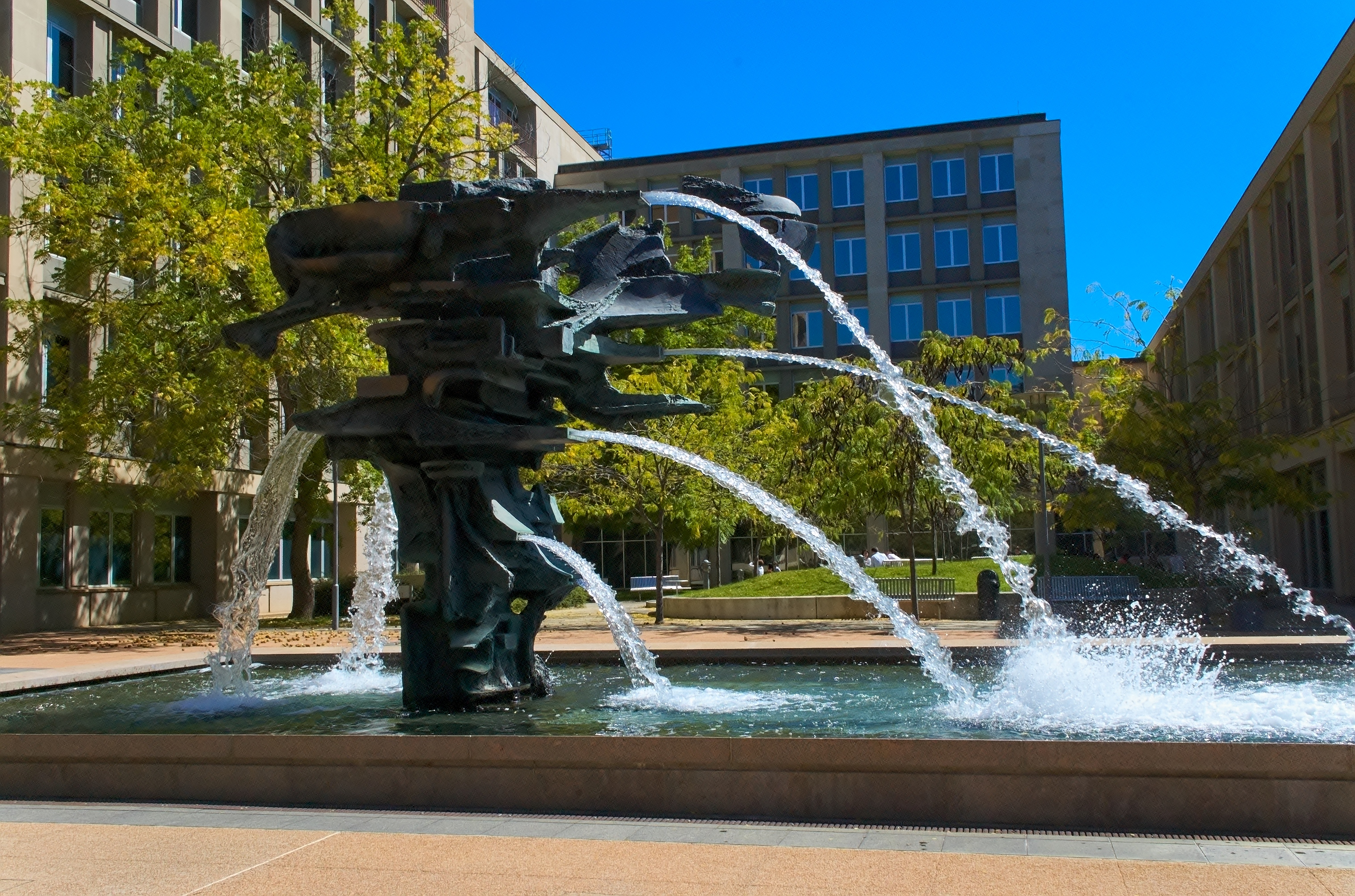 Part of The Treasury Building Fountain located in the courtyard of The Treasury Building in Parkes, Australian Capital Territory.